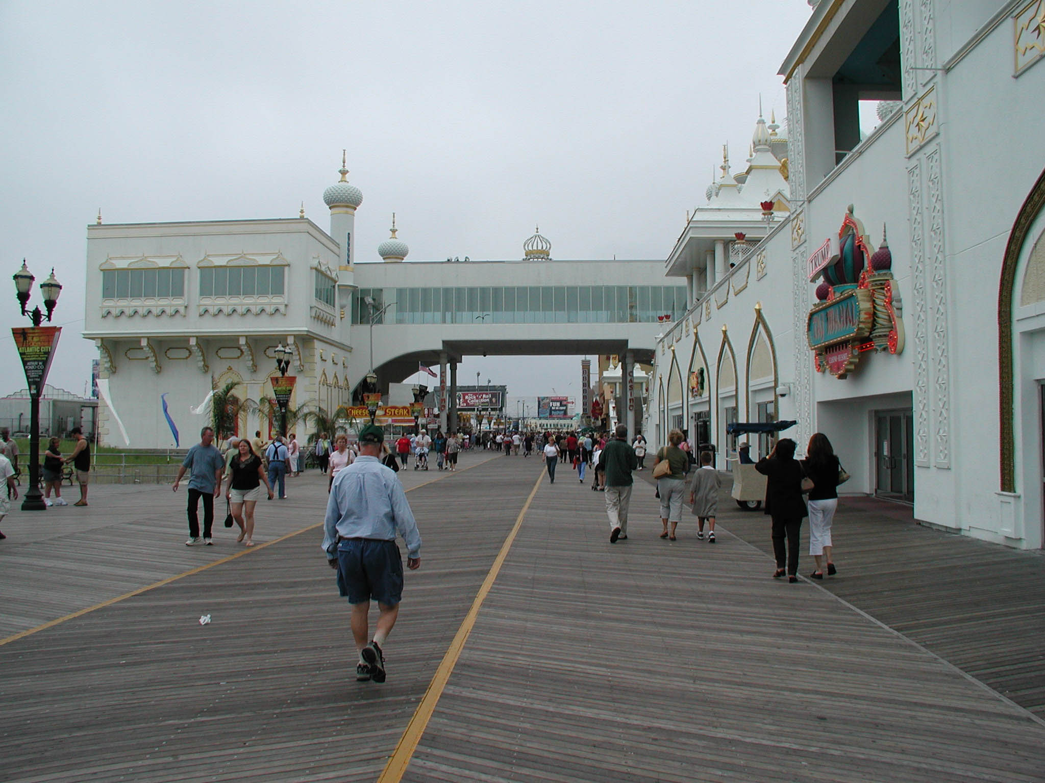 Atlantic City Boardwalk, 2004.